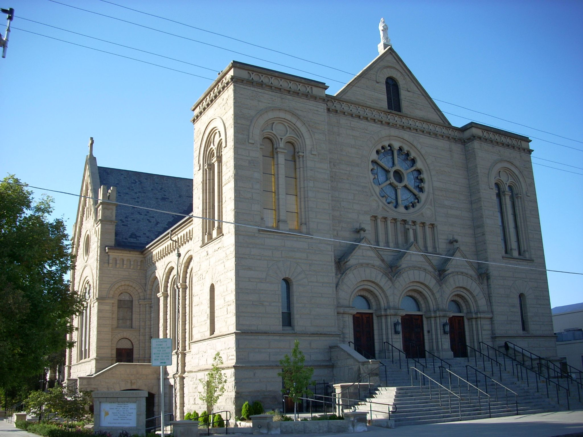 A complete view of the St. John's cathedral in Boise, Idaho.